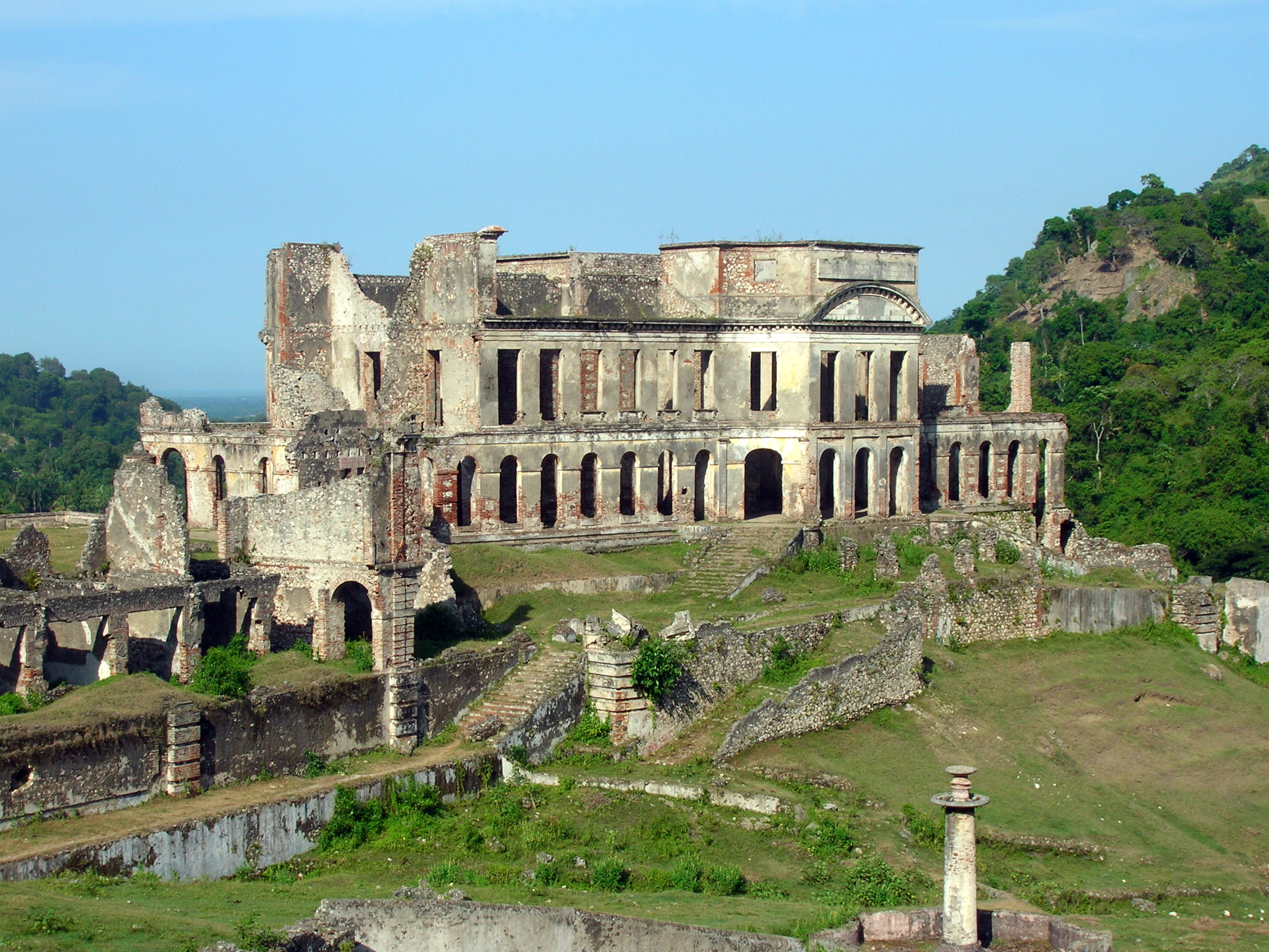 The back of the Sans-Souci palace, in Milot, Haiti.